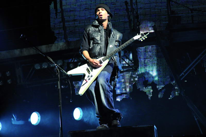 Tom Kaulitz on the tour Welcome to Humanoid City